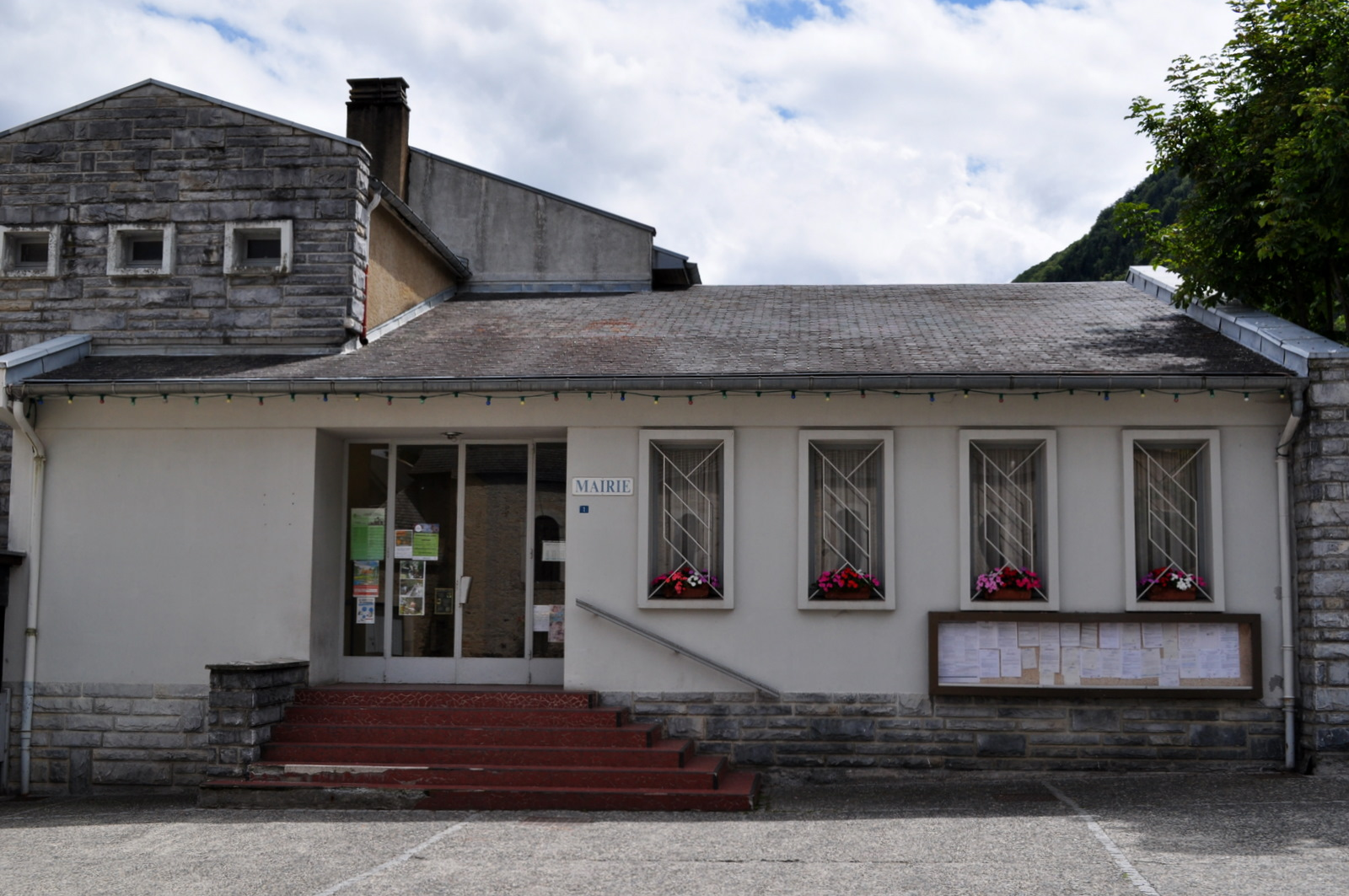 Town hall of Guchen